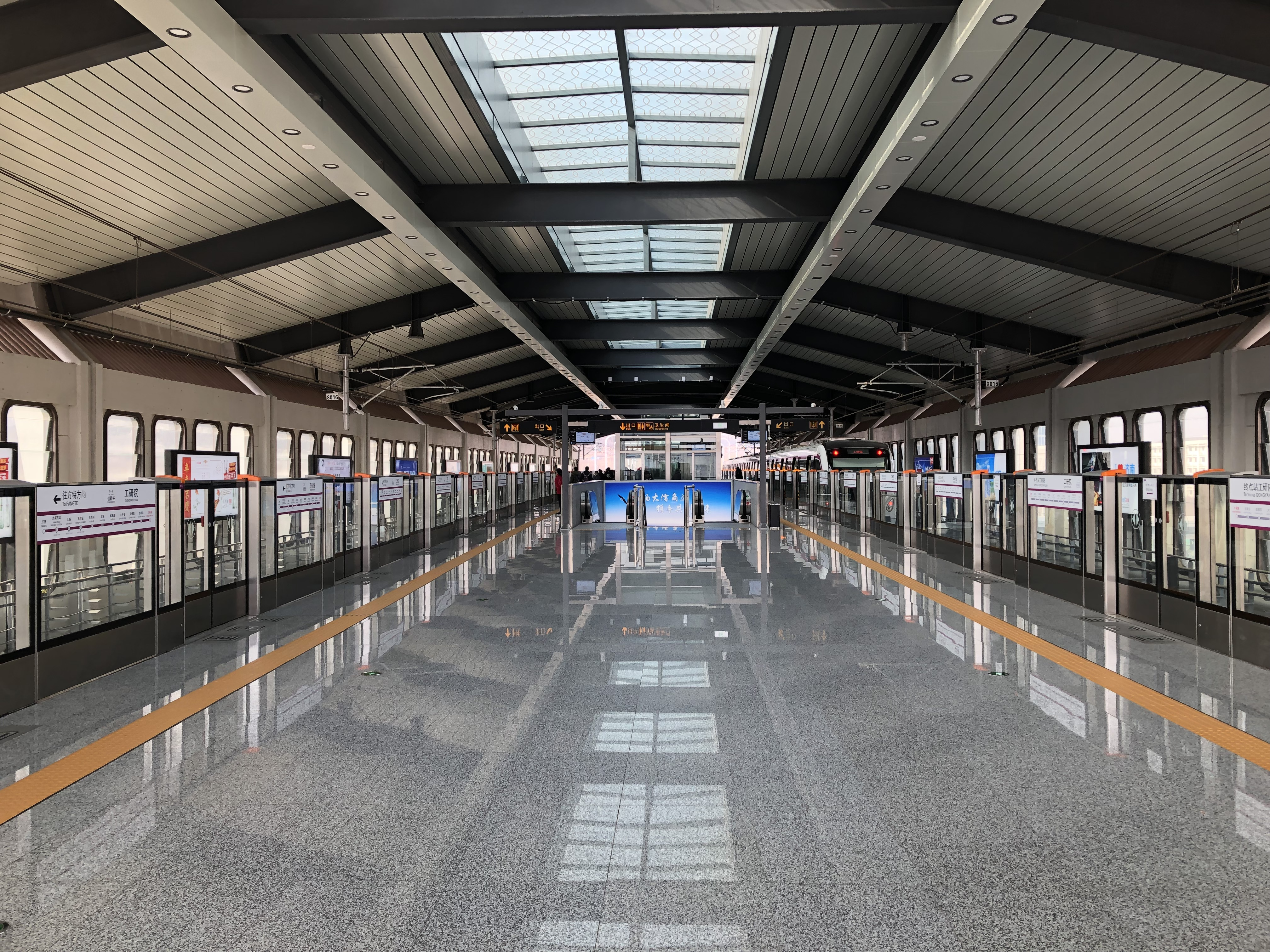 Gongyanyuan Station overview.